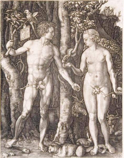 Adam and Eve after Durer, 24,3 x 18,8 cm. (9½ x 7 3/8 in.)